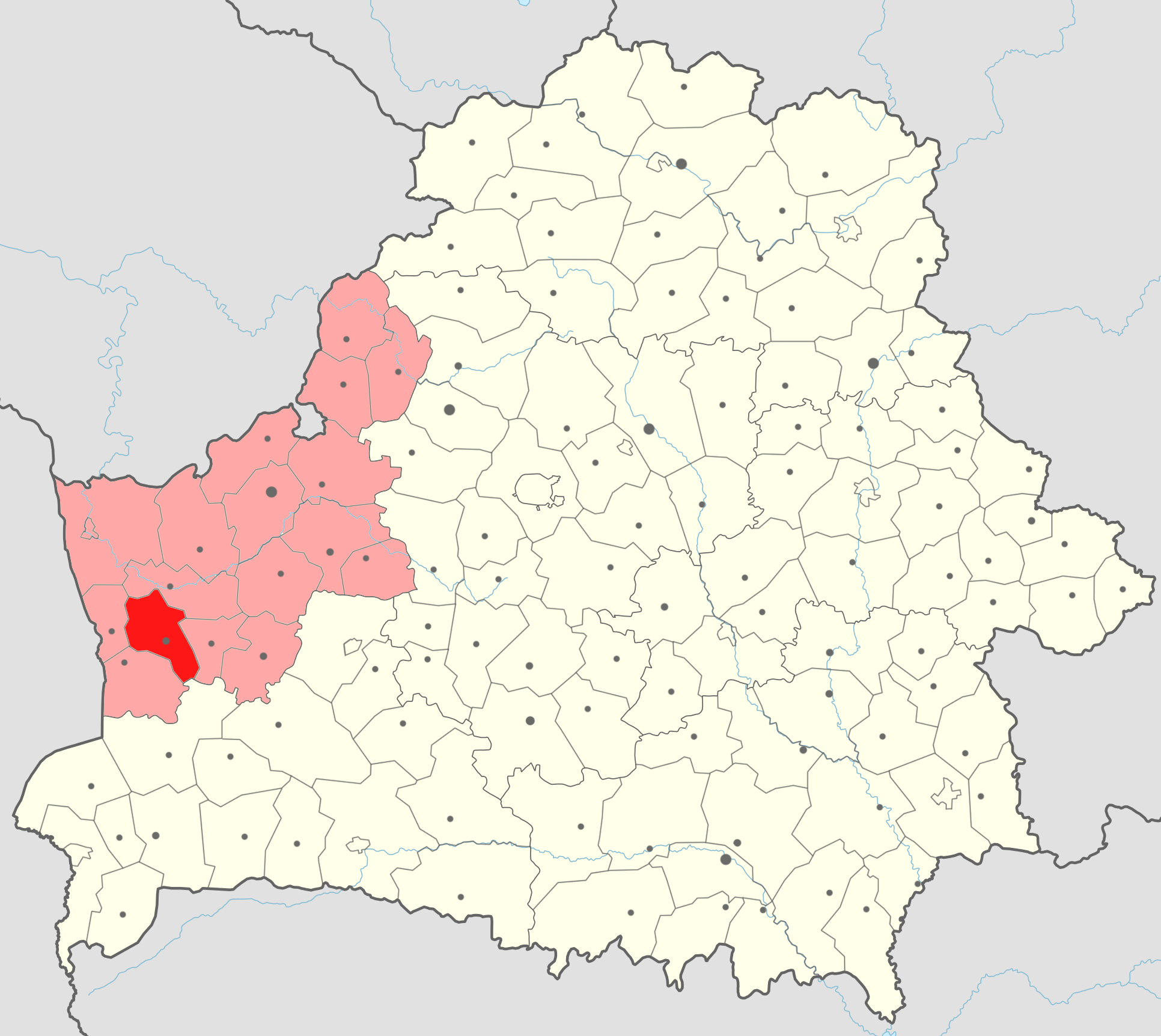 Map of Vaŭkavyski rayon (in red) with Hrodna voblast' (in light red) on the map of Belarus.